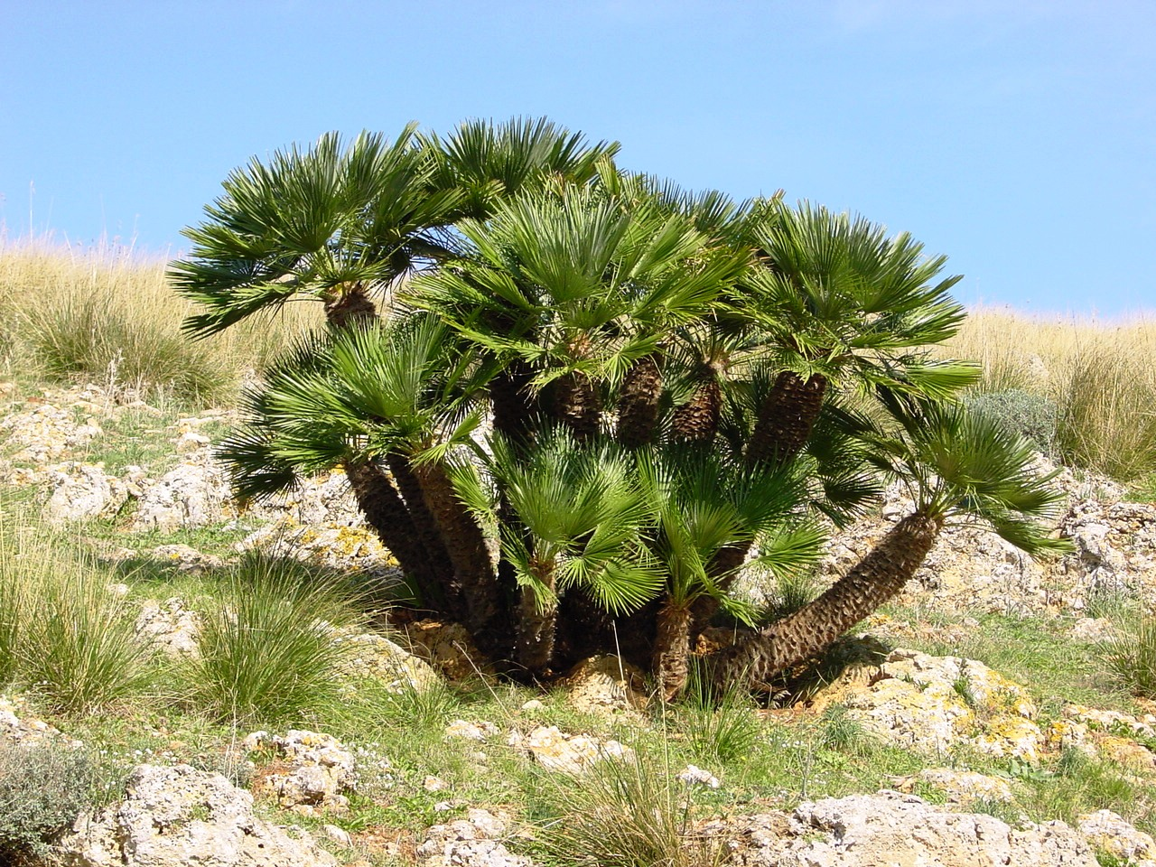 Riserva naturale dello Zingaro, Sicily Chamaerops humilis